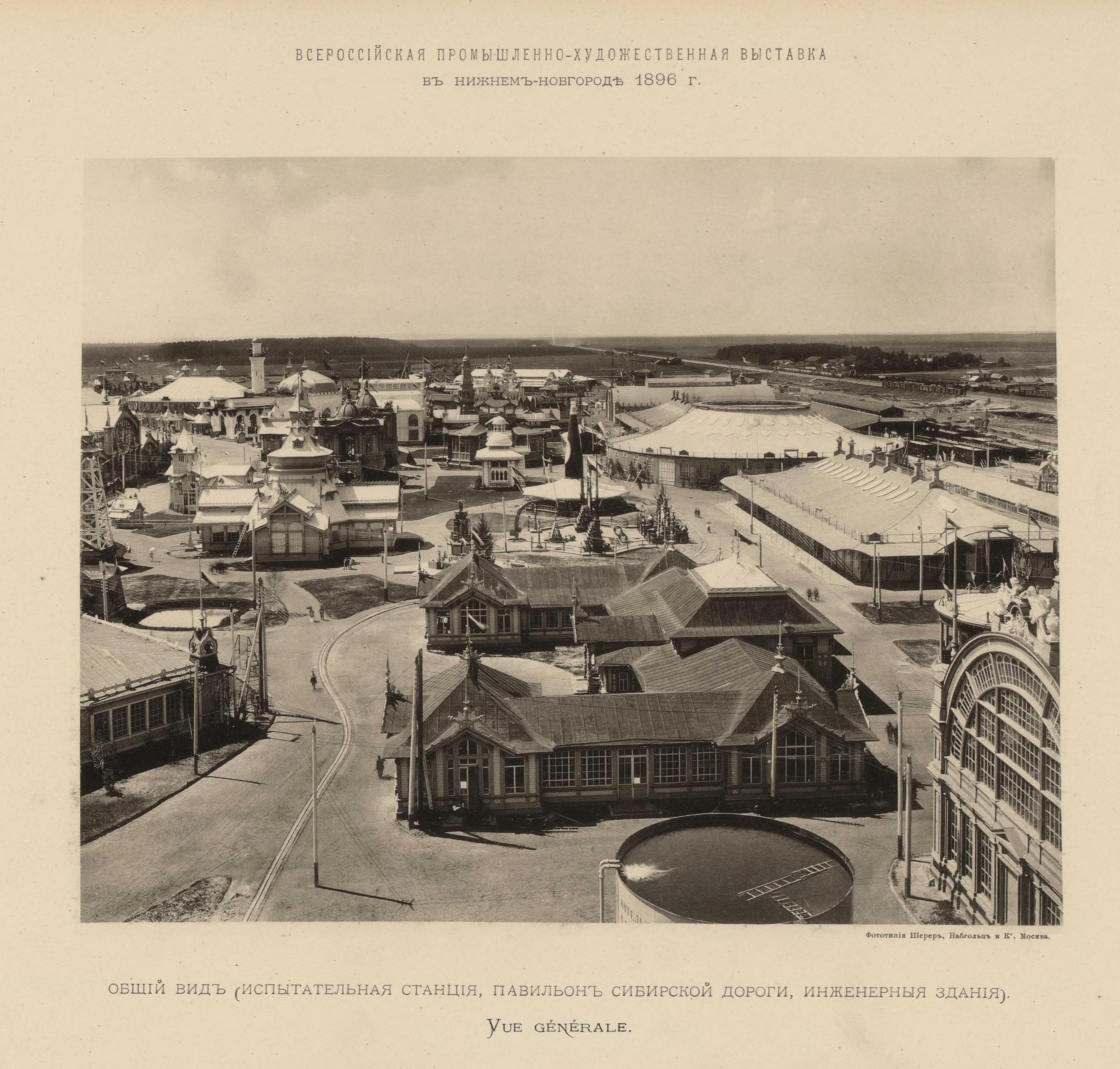 Rotunda and rectangular pavilion - the world's first steel tensile structures by the great Russian engineer and scientist Vladimir Shukhov (1853-1939) in 1896. The All-Russia industrial and art exhibition 1896 in Nizhny Novgorod.